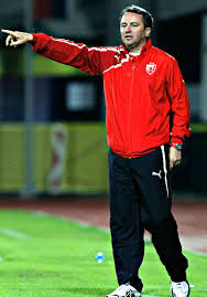 Slaviša Stojanović